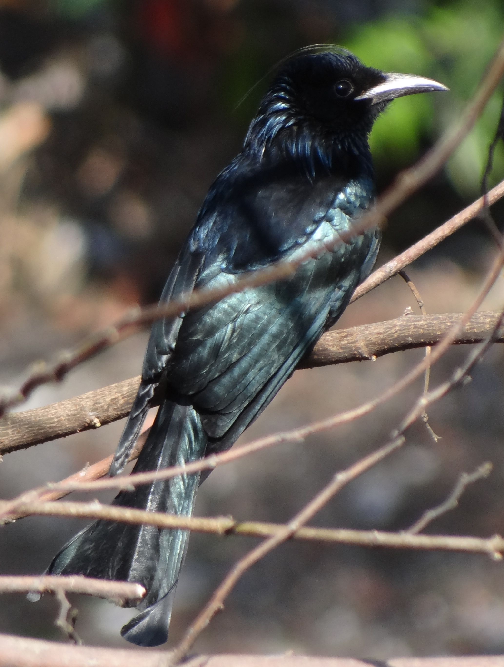 Hair-crested Drongo (Spangled Drongo) - Dicrurus hottentottus